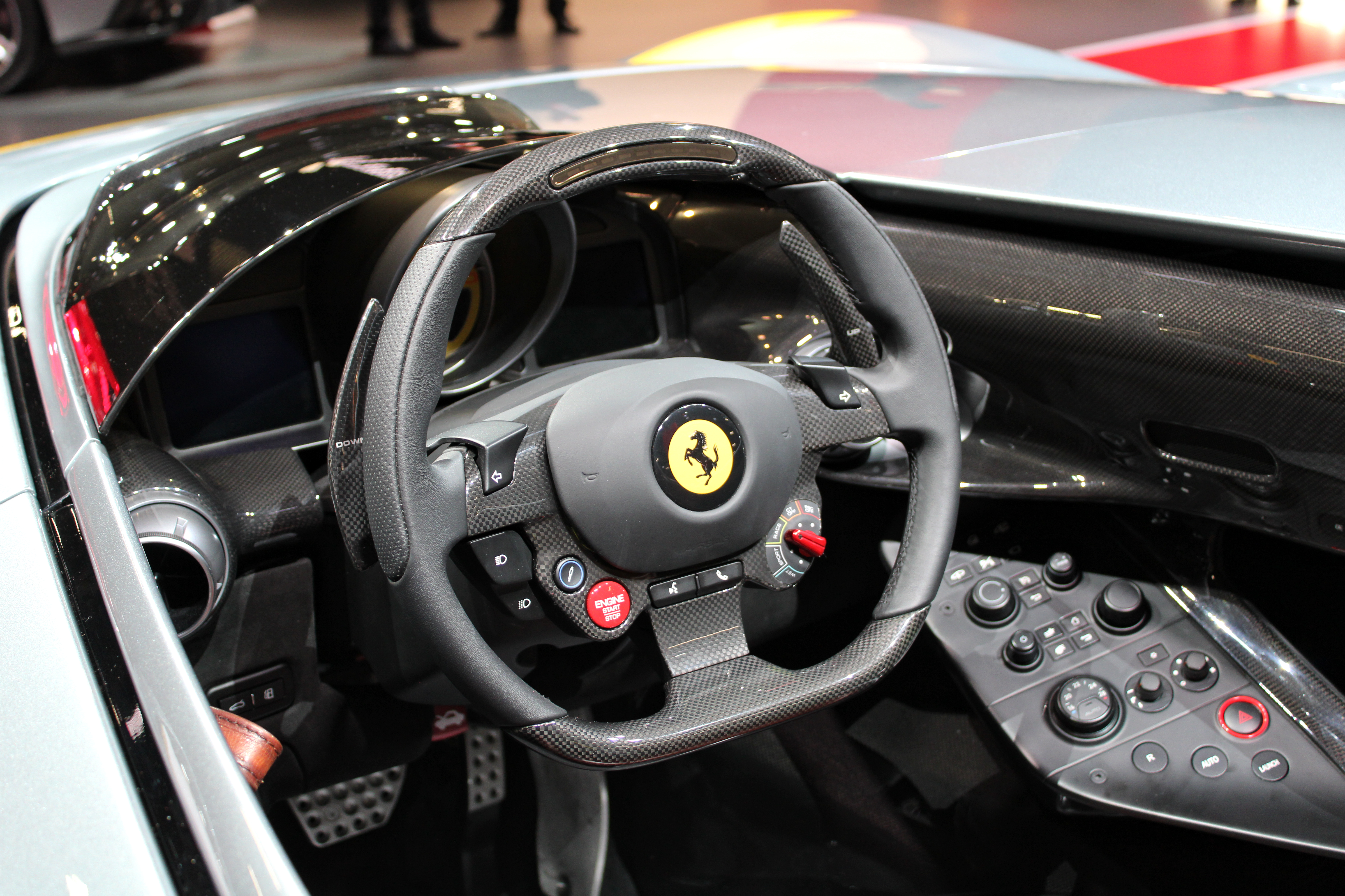 Ferrari Monza SP1 at Paris Motor Show 2018